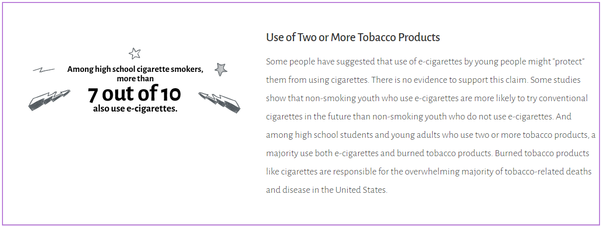 Use of Two or More Tobacco ProductsSome people have suggested that use of e-cigarettes by young people might "protect" them from using cigarettes. There is no evidence to support this claim. Some studies show that non-smoking youth who use e-cigarettes are more likely to try conventional cigarettes in the future than non-smoking youth who do not use e-cigarettes. And among high school students and young adults who use two or more tobacco products, a majority use both e-cigarettes and burned tobacco products. Burned tobacco products like cigarettes are responsible for the overwhelming majority of tobacco-related deaths and disease in the United States.